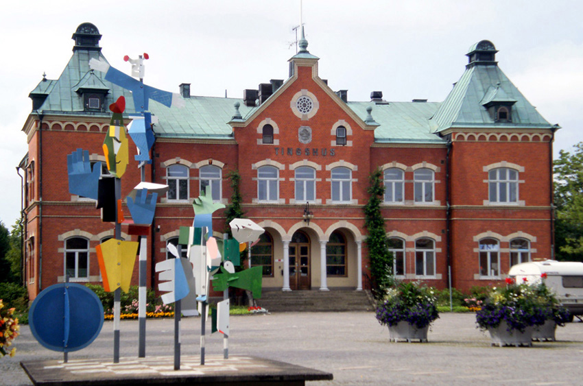 Värnamo 2011